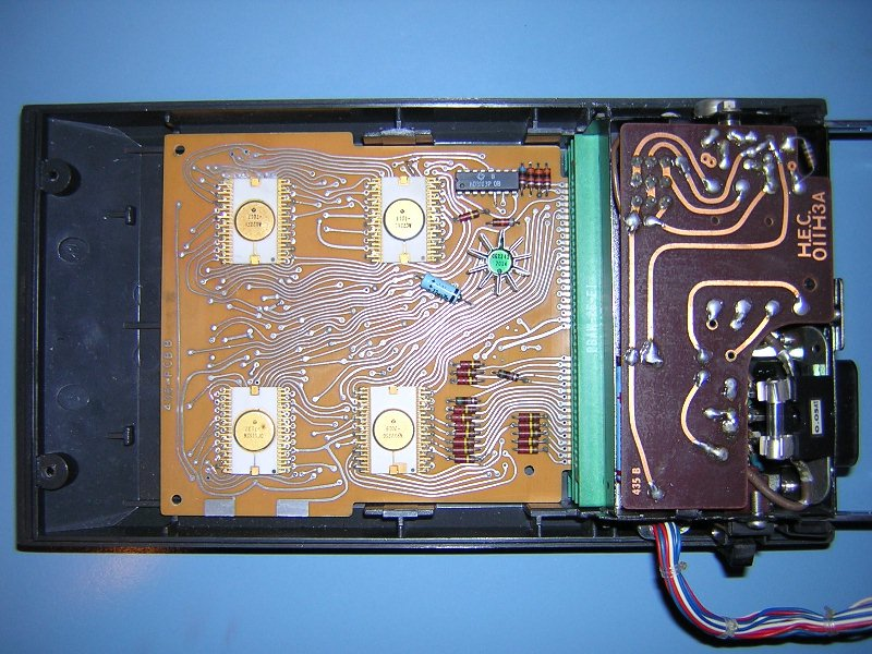 Interior of the caculator Sharp QT-8D showing the 4 LSI ICs